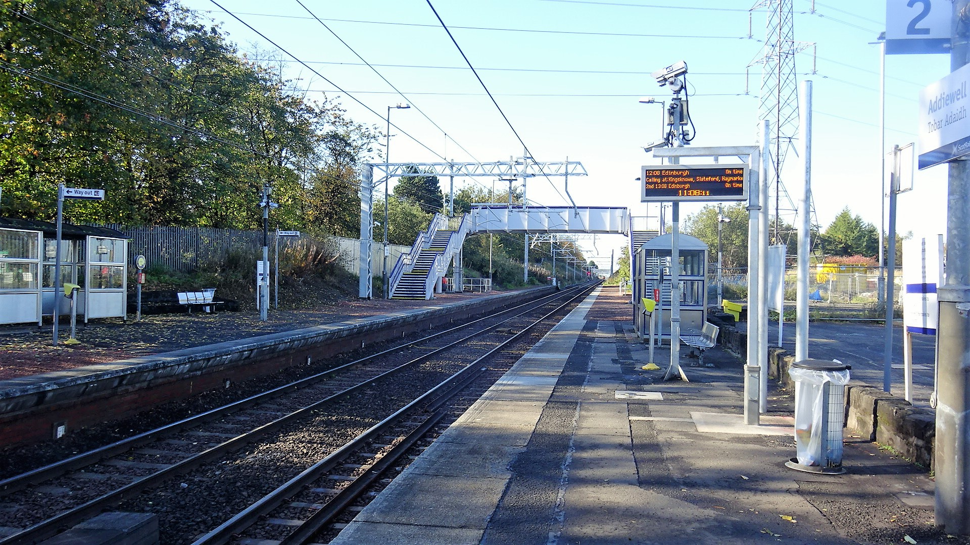 Addiewell railway station, West Lothian, Scotland. View west.